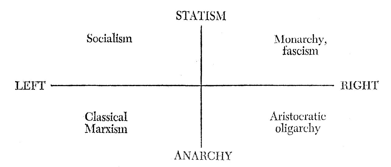 Political Compass with the commonly associated colors in each quadrant